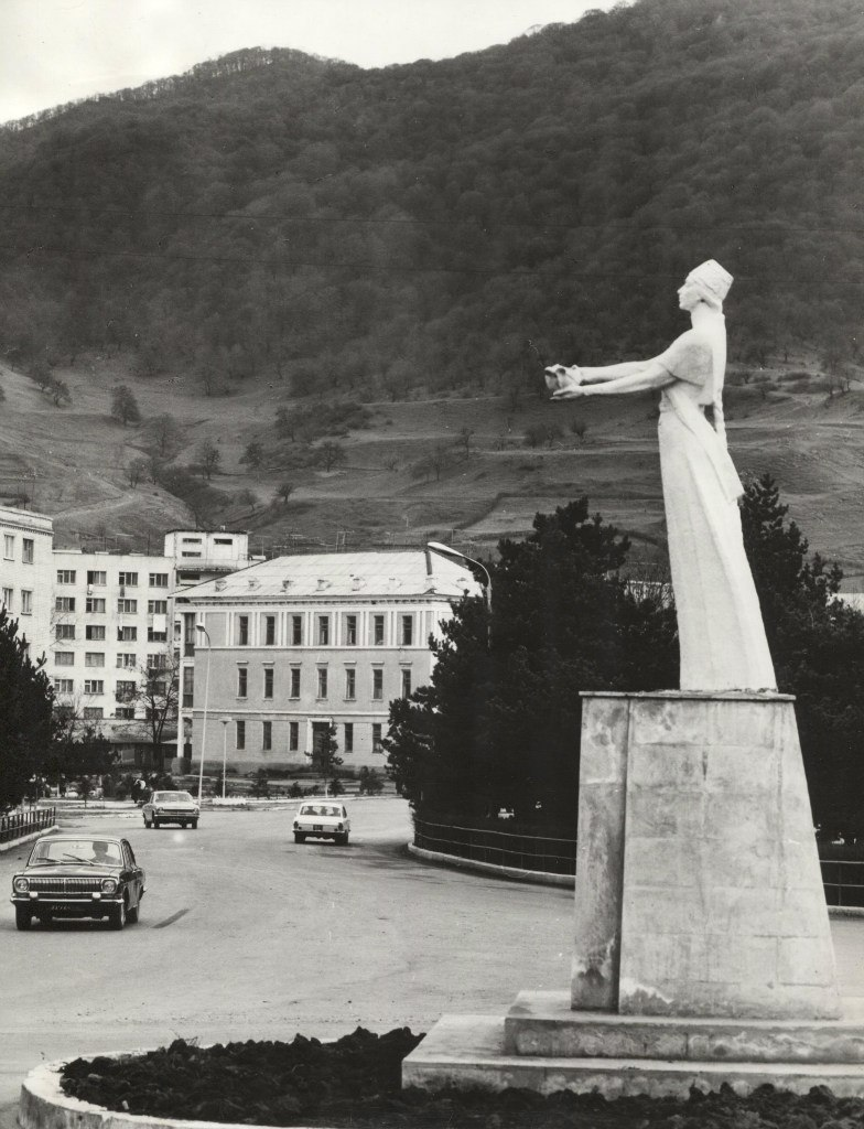 goryanka